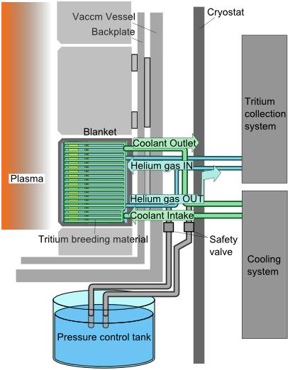 Block diagram of Magnetic confinement fusion riactor's Blanket